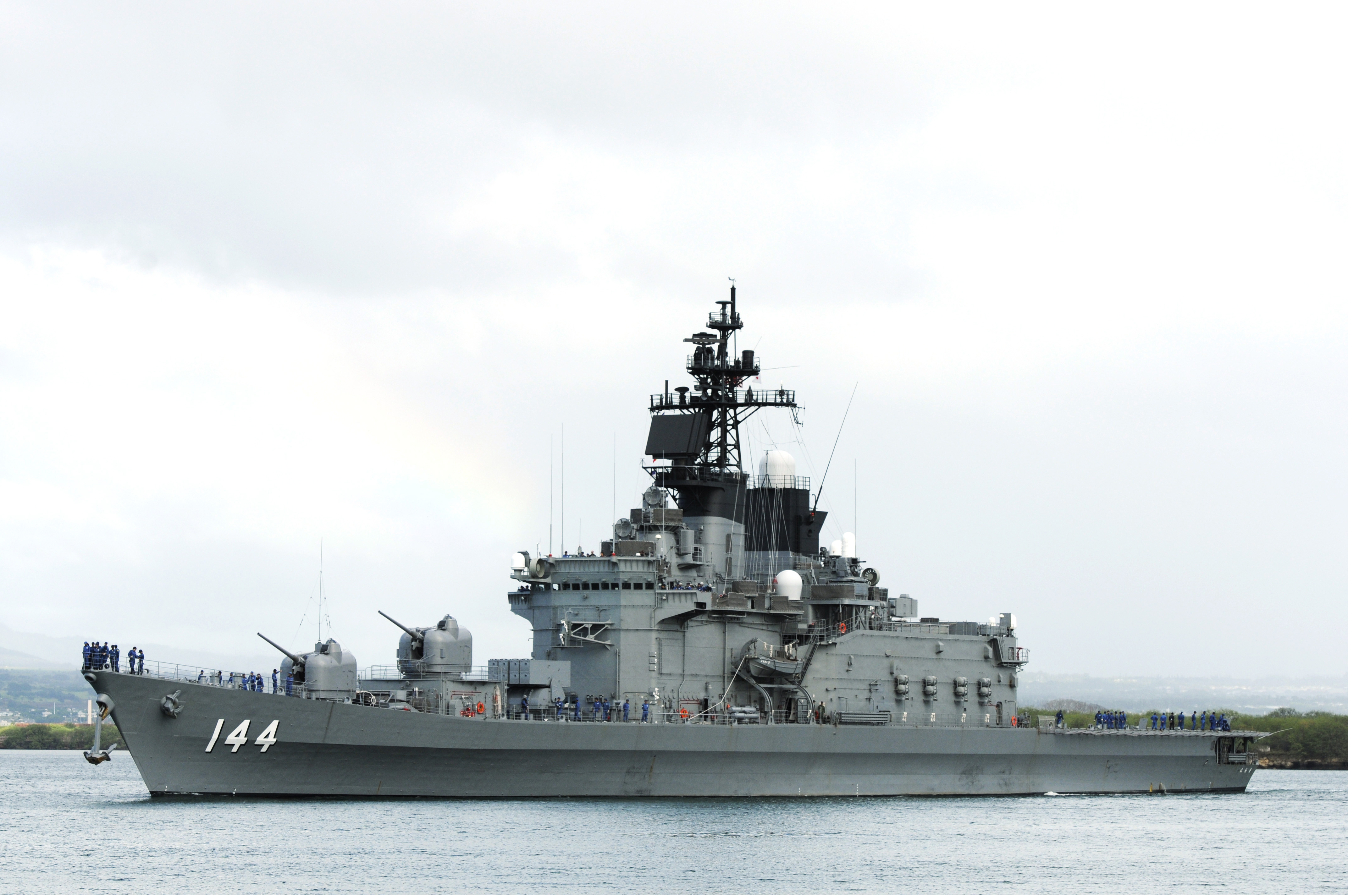 JOINT BASE PEARL HARBOR-HICKAM, Hawaii (Nov. 10, 2011) The Japan Maritime Self-Defense Force (JMSDF) helicopter destroyer JS Kurama (DDH 144) departs Joint Base Pearl Harbor-Hickam to be part of exercise Koa Kai 12-1. Koa Kai 12-1 is an integrated maritime exercise to prepare independent deployers in multiple warfare areas, while also providing training in a multi-ship environment. (U.S. Navy photo by Mass Communication Specialist 2nd Class Mark Logico/Released)